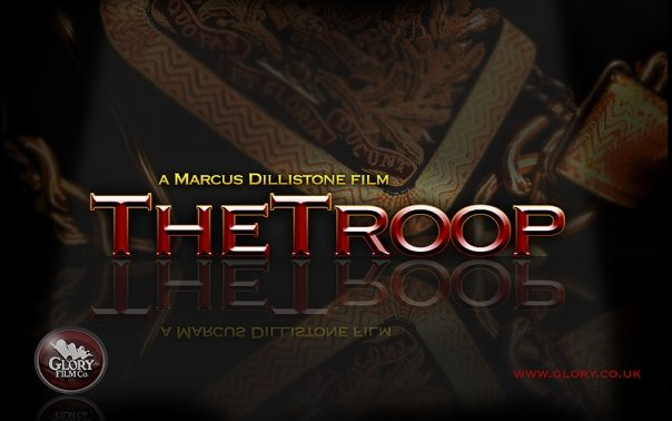 Poster design for the film "The Troop".